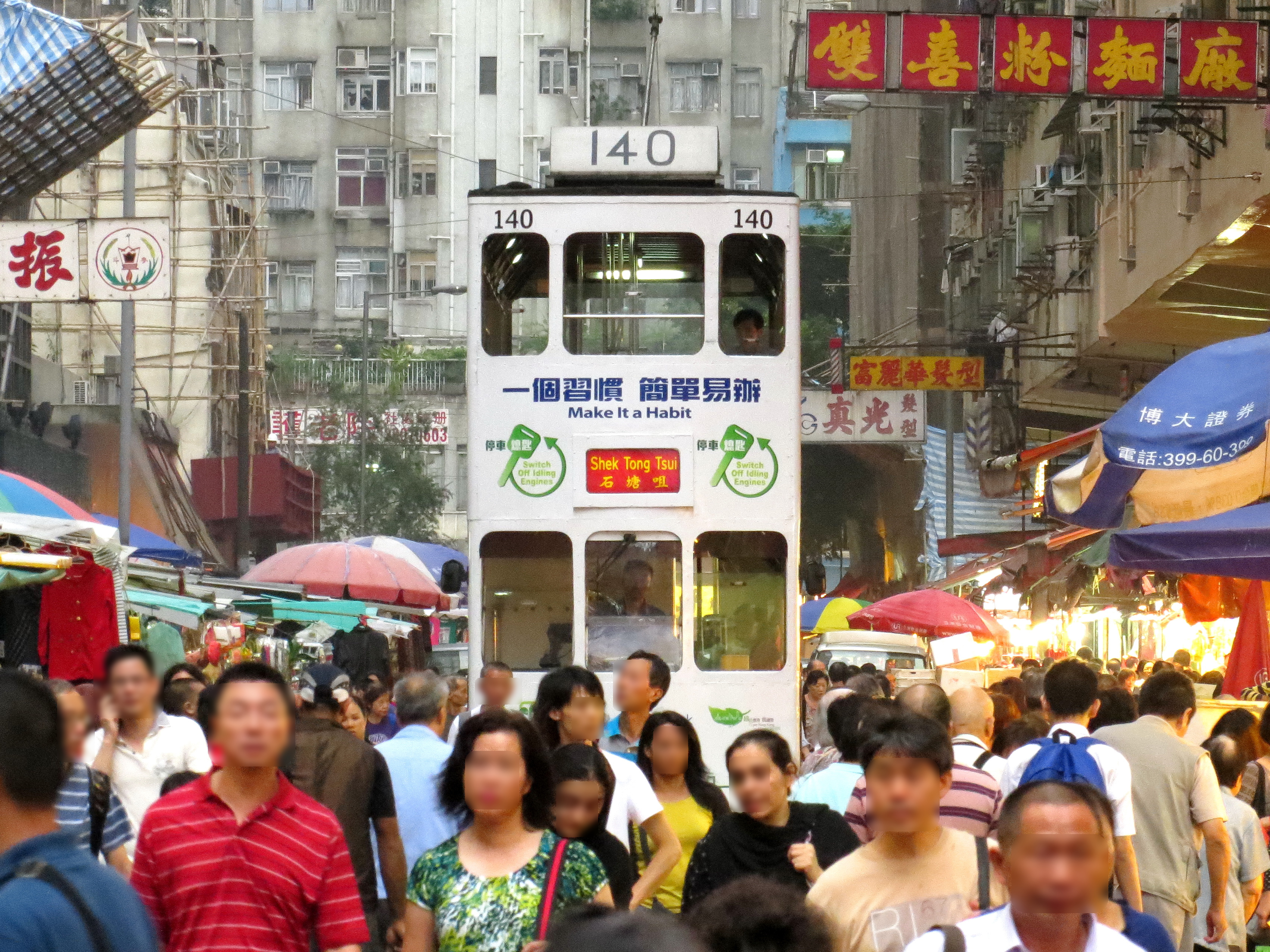 Tram 140 traveling eastbound on Chun Yeung Street, North Point, Hong Kong.